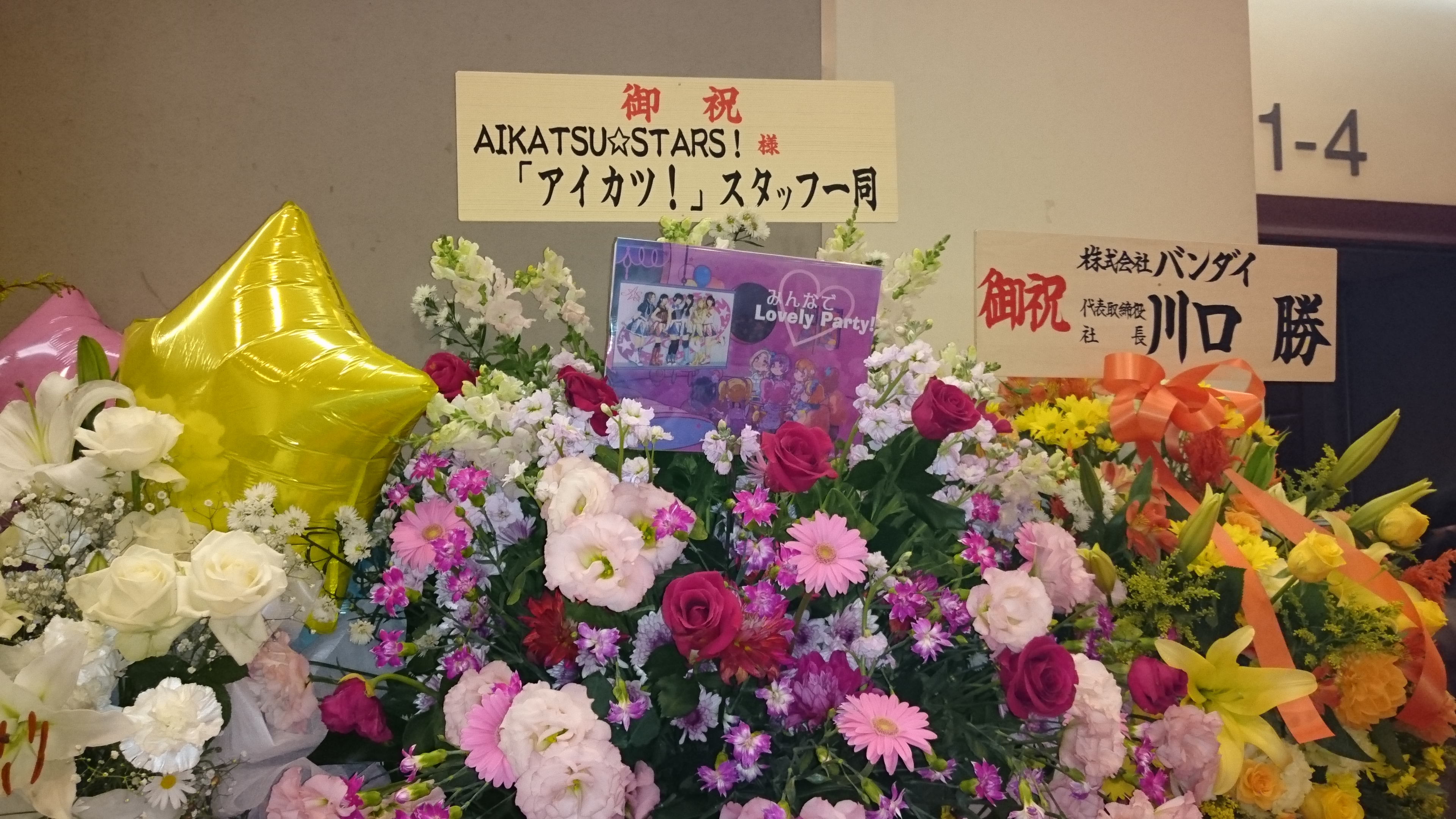 Celebration flowers for the performers in the live concert, AIKATSU☆STARS! Aikatsu! Special LIVE 2015 Lovely Party!!. The production staffs of TV animation titled Aikatsu! arranged the flowers. The card reflecting in the center shows the characters of Akari Generation part (Seasons 3 and 4) watching the monitor. The monitor projects an enlarged image of the members of AIKATSU☆STARS!. See COM:DM Japan about copyright.